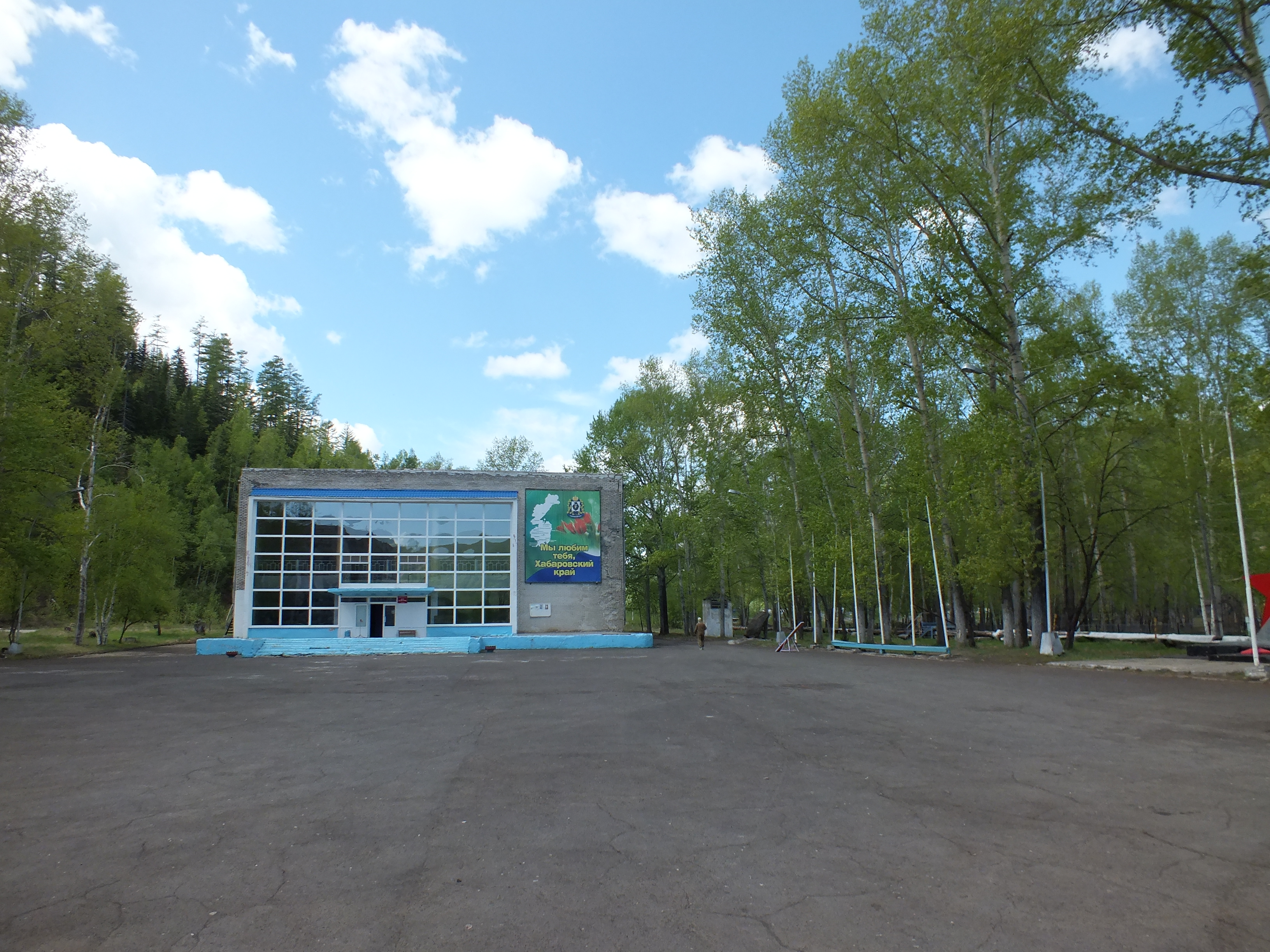 Gorniy Solnechniy rayon Khabarovskiy kray